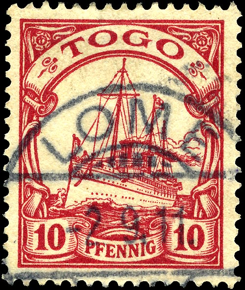 Togo 10pf Yacht stamp of 1900